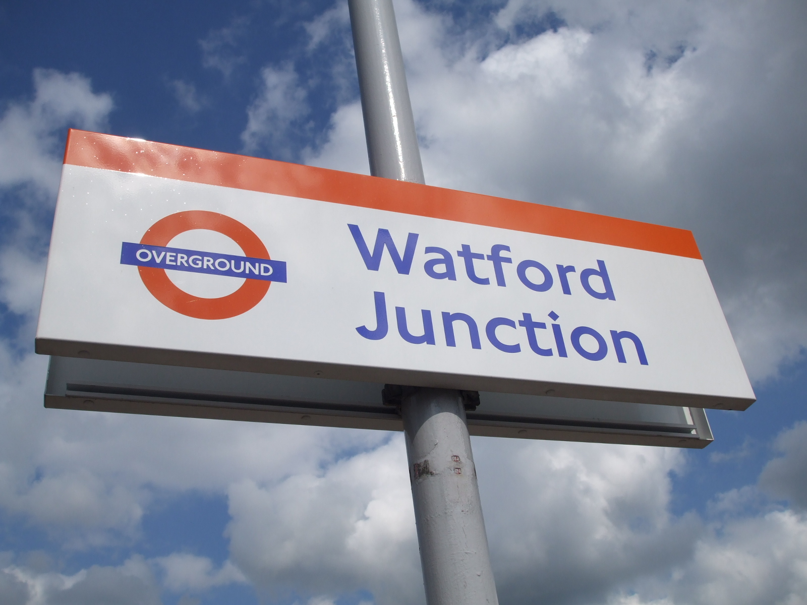 Watford Junction station London Overground (DC Line) platform signage